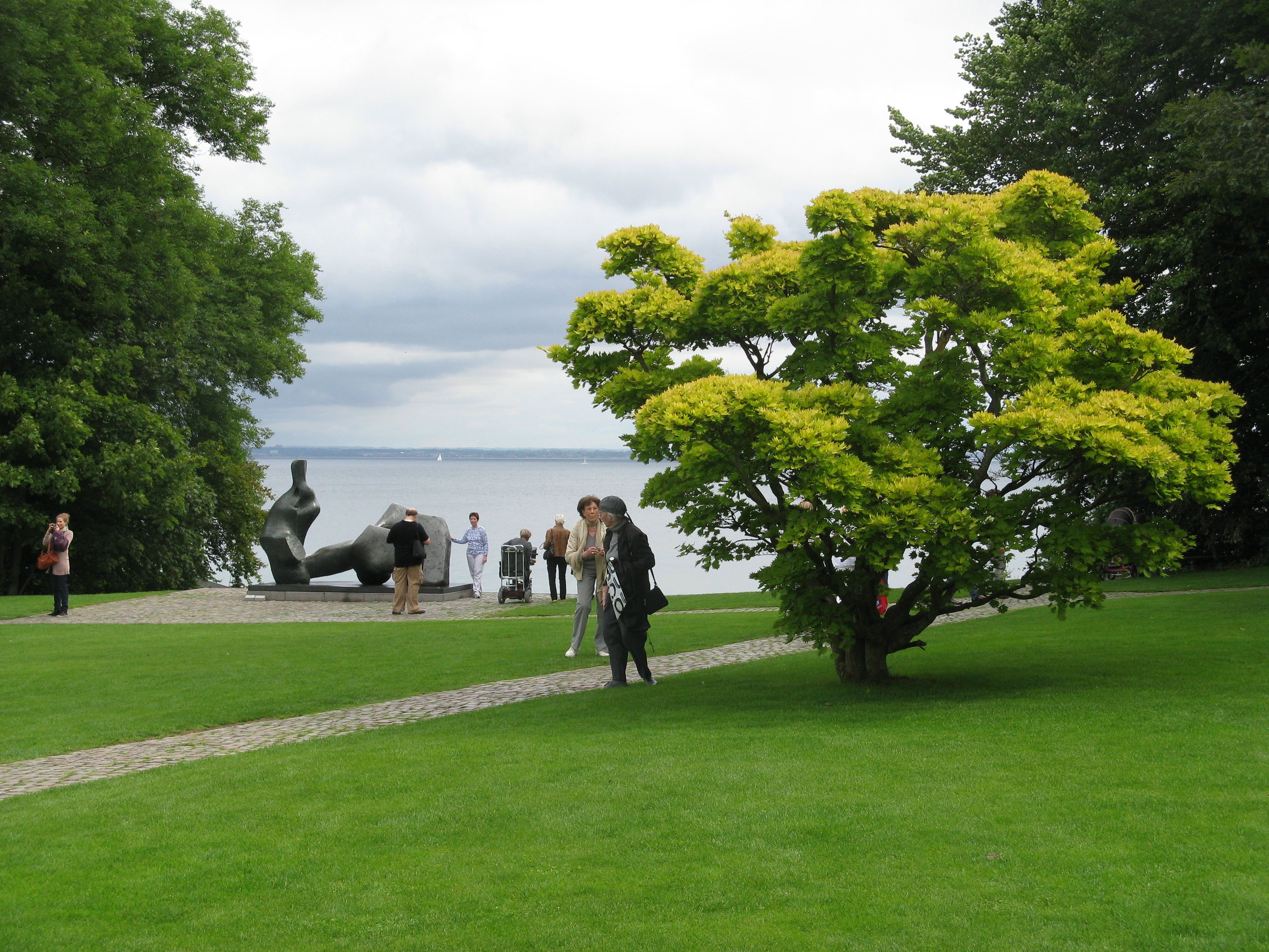 Louisiana Museum of Modern Art Collection.